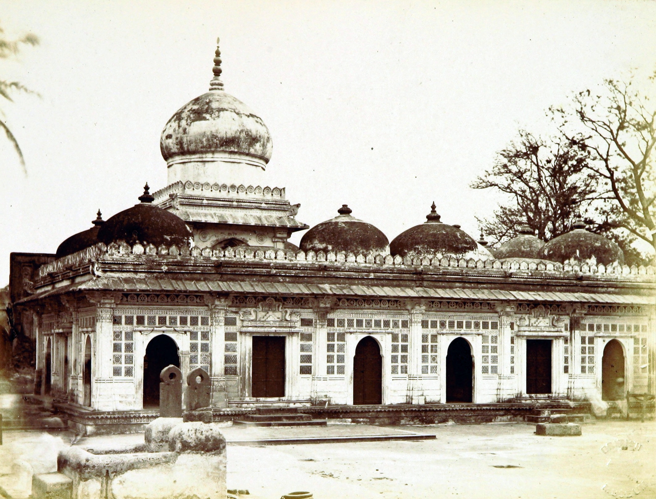 Image taken from: Title: "Architecture at Ahmedabad, the Capital of Goozerat, photographed by Colonel Biggs, ... With an historical and descriptive sketch, by T. C. H., ... and architectural notes by J. Fergusson, etc" Author: HOPE, Theodore Cracraft - Sir, K.C.S.I Contributor: BIGGS, Thomas. Contributor: FERGUSSON, James - Architect Shelfmark: "British Library HMNTS 10057.f.17.", "British Library OC V 6665" Page: 357 Place of Publishing: London Date of Publishing: 1866 Issuance: monographic Identifier: 001730119 Explore: Find this item in the British Library catalogue, 'Explore'. Download the PDF for this book (volume: 0) Image found on book scan 357 (NB not necessarily a page number) Download the OCR-derived text for this volume: (plain text) or (json) Click here to see all the illustrations in this book and click here to browse other illustrations published in books in the same year. Order a higher quality version from here.